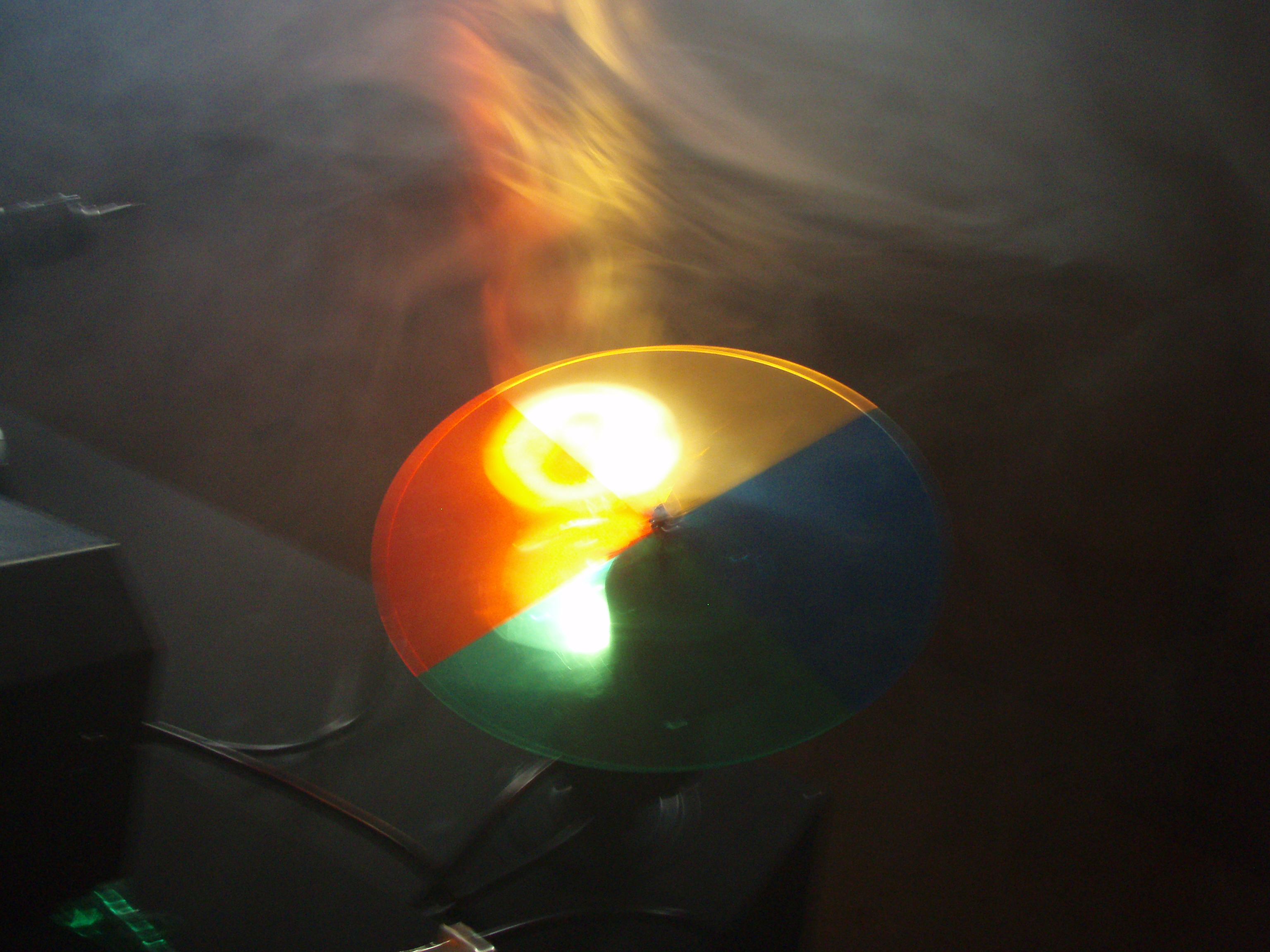 A Coloured Lighting Gel